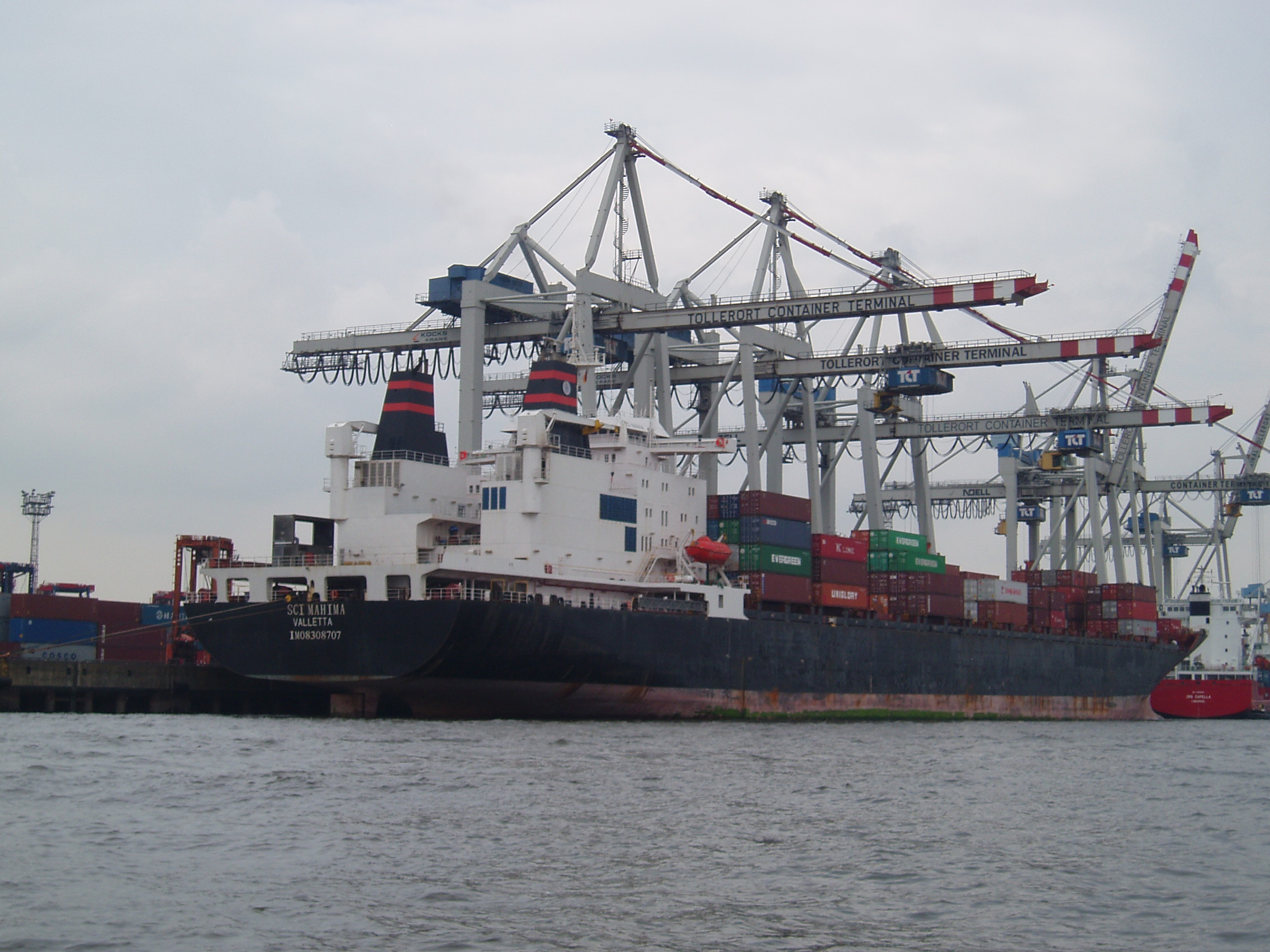 Port of Hamburg